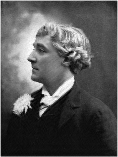 Photograph of British stage-actor Kyrle Bellew, circa 1880 to 1894.